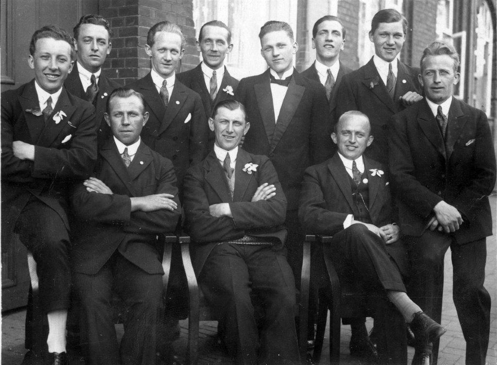 Team photo of Boldklubben 1909 — Group photo of the team (in suites) participating in 1926/27-season of FBUs Mesterskabsrække (Funen Football Association) and Landsfodboldturneringen (Danish Football Association), in 1927.